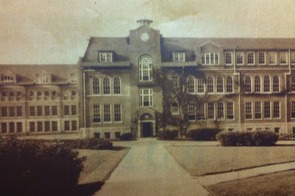 Historical photo of McGuffey Hall